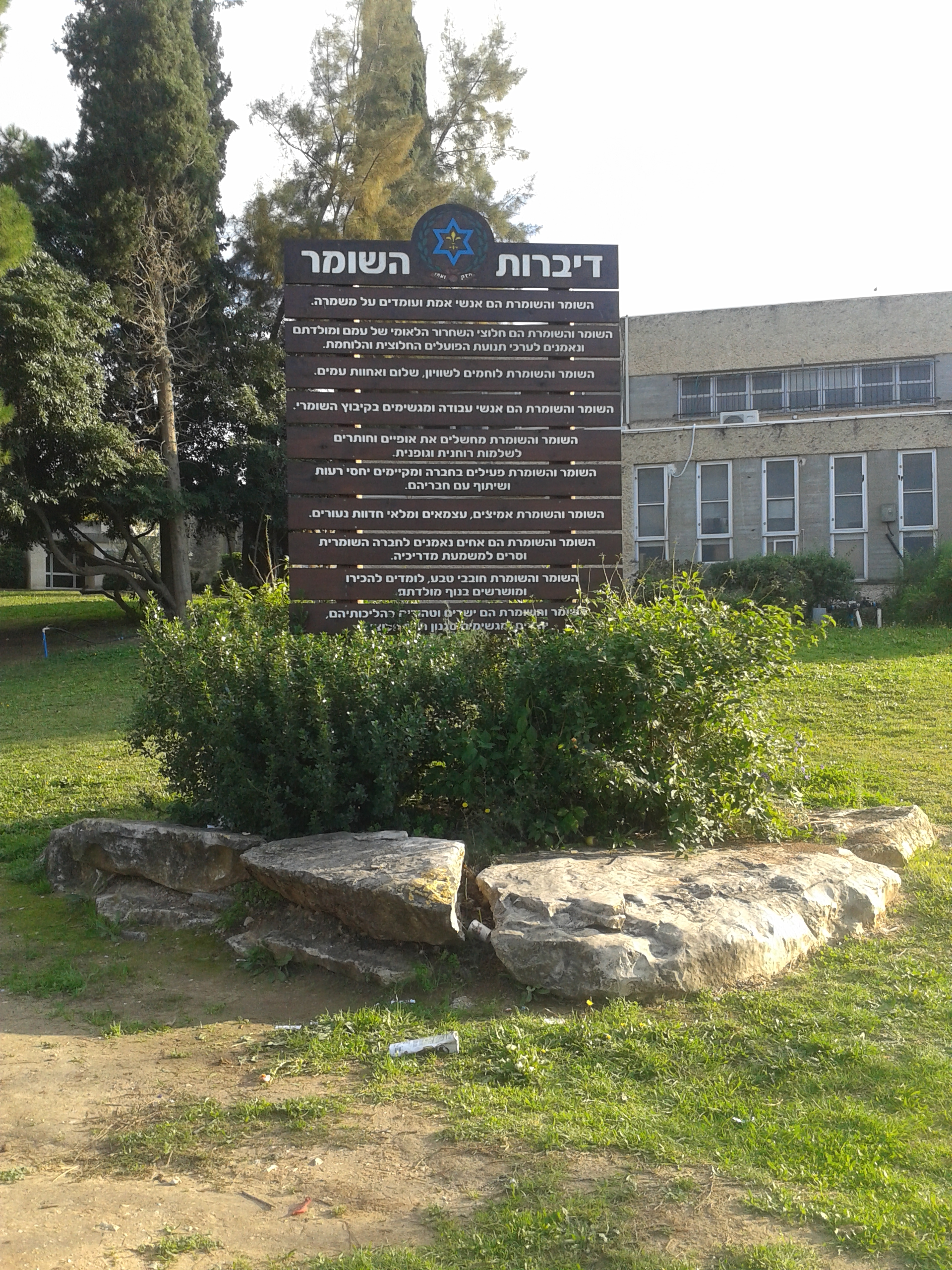 The Ten Commandments of Hashomer Hatzair